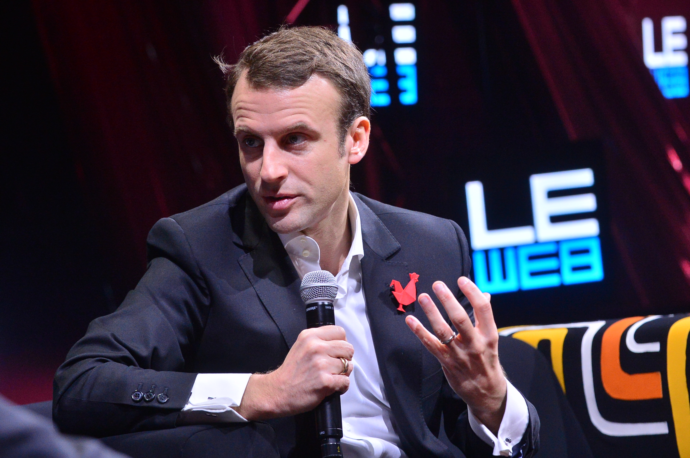 LEWEB 2014 - CONFERENCE - LEWEB TRENDS - IN CONVERSATION WITH EMMANUEL MACRON (FRENCH MINISTER FOR ECONOMY INDUSTRY AND DIGITAL AFFAIRS) - PULLMAN STAGE